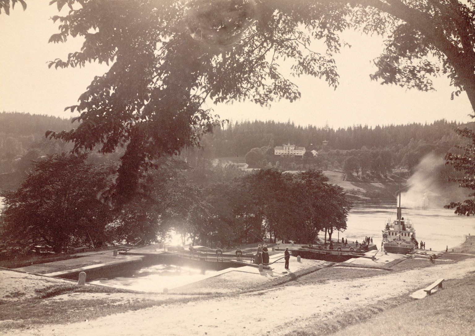 Collection: A. D. White Architectural Photographs, Cornell University Library Accession Number: 15/5/3090.00728 Title: Lock on the Trollhätte Canal, Sweden Photographer: Axel Sjöberg Canal date: 1793 Photograph date: ca. 1865-ca. 1895 Location: Europe: Sweden; Trollhättan Materials: albumen print Image: 6 1/4 x 8 5/8 in.; 15.875 x 21.9075 cm Provenance: Transfer from the College of Architecture, Art and Planning Persistent URI: There are no known copyright restrictions on this image. The digital file is owned by the Cornell University Library which is making it freely available with the request that, when possible, the Library be credited as its source. We had some help with the geocoding from Web Services by Yahoo!